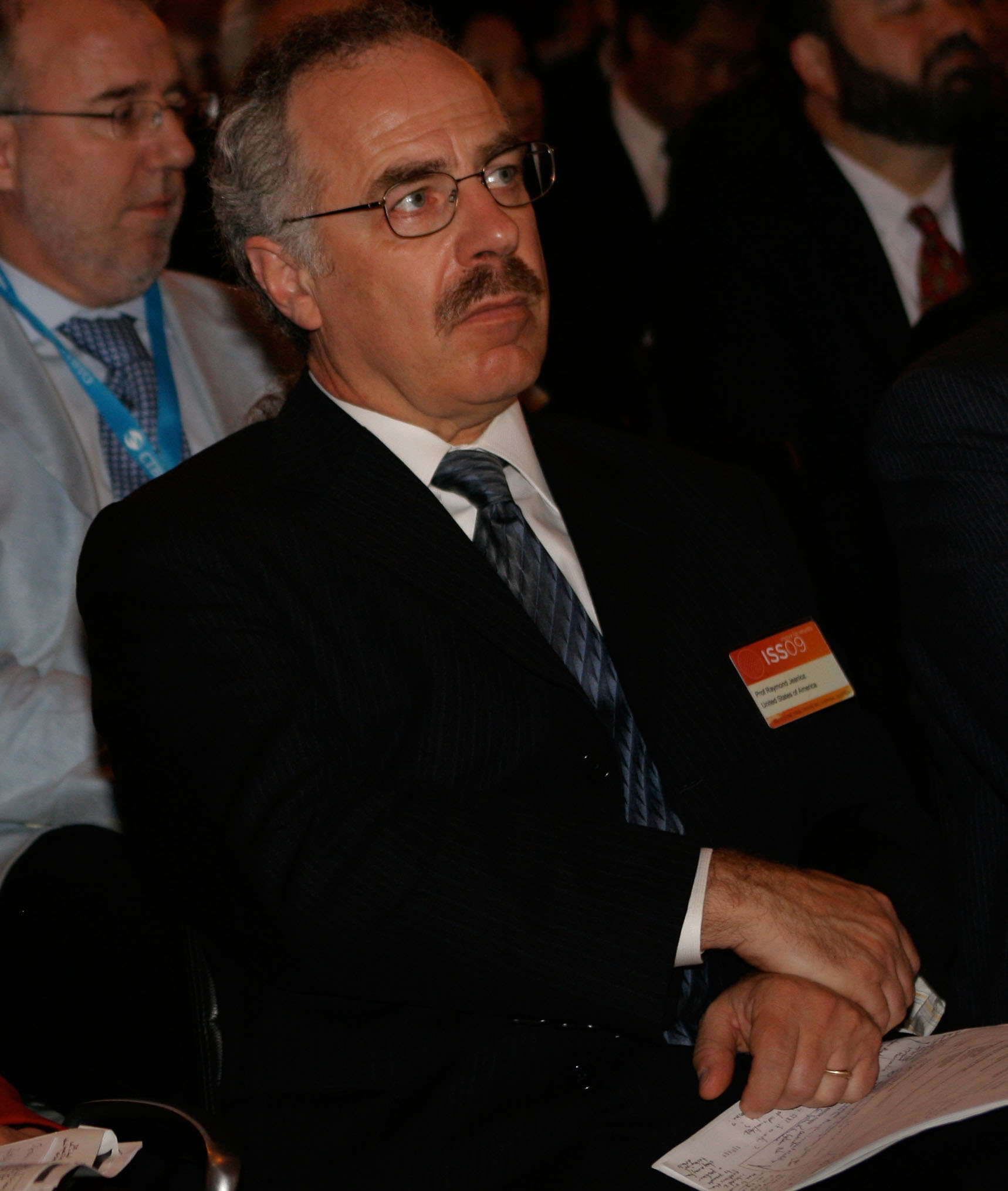 Professor Raymond Jeanloz, UC Berkeley, attending the opening ceremony at the CTBTO, 2009. Copyright CTBTO Preparatory Commission.